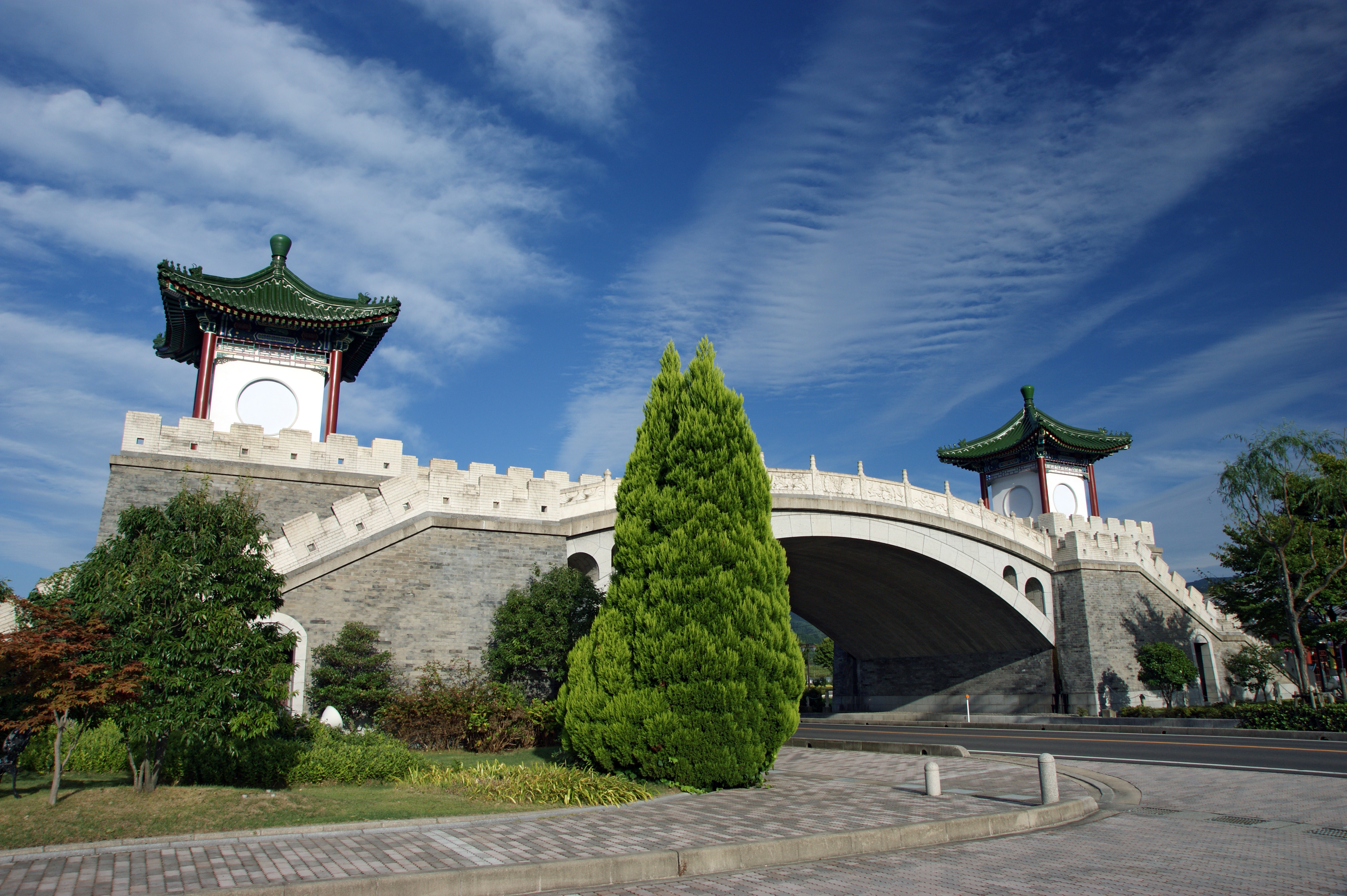 Enchoen in Yurihama, Tottori prefecture, Japan